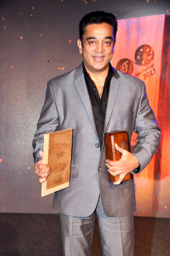 Kamal Haasan at Jagran Festival Awards